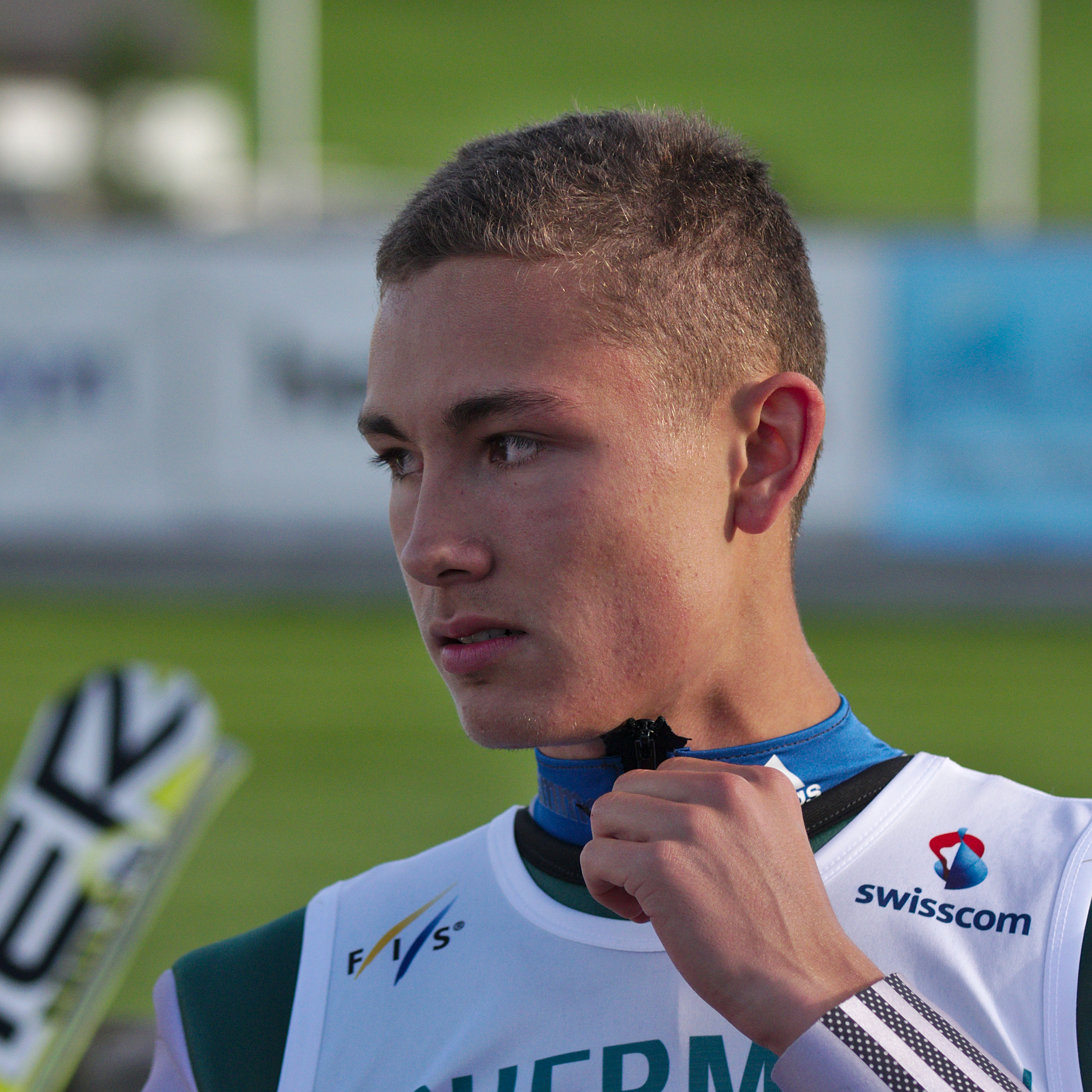 FIS Sommer Grand Prix 2014 - 20140809 - Phillip Sjoeen